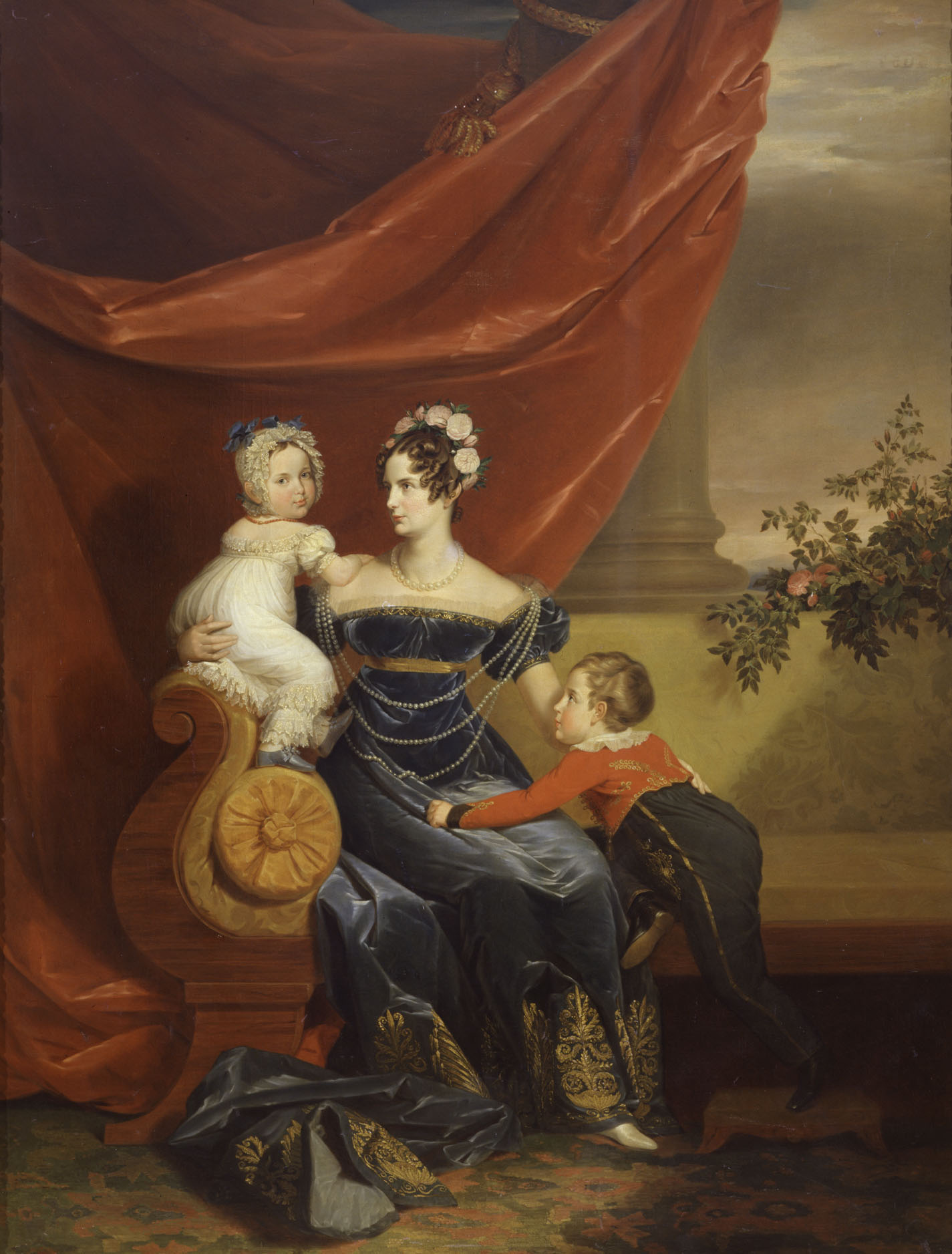 Portrait of the Empress Alexandra Feodorovna of Russia, née Charlotte of Prussia with her two eldest children, Alexander and Maria Nikolaevna.